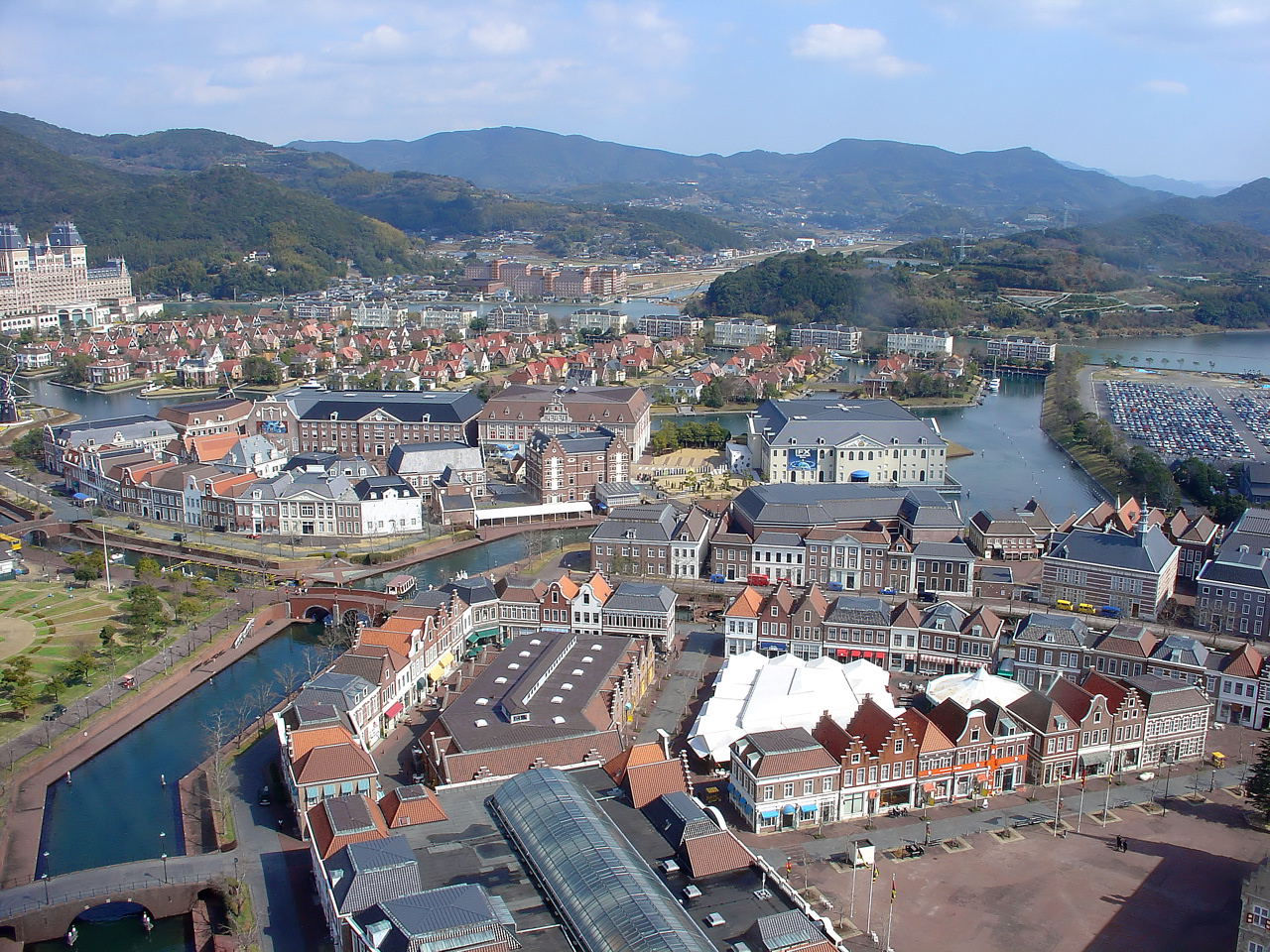 Huis Ten Bosch.(Sasebo City, Nagasaki Prefecture, Japan)